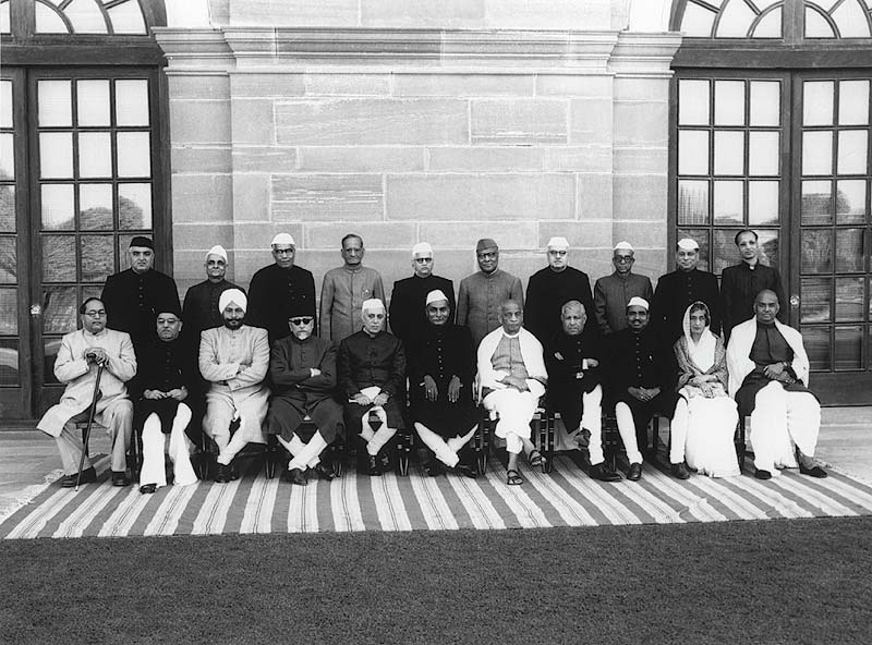 Dr. Rajendra Prasad, President of India, seen with the Members of the Union Cabinet at Government House, New Delhi, on 31 January 1950, before the President drove in State to the Indian Parliament to deliver his first address. (L to R sitting) Dr. B.R. Ambedkar, Rafi Ahmed Kidwai, Sardar Baldev Singh, Maulana Abul Kalam Azad, Jawaharlal Nehru, Dr. Rajendra Prasad, Sardar Patel, Dr. John Mathai, Shri Jagjivan Ram, Rajkumari Amrit Kaur, Dr. S.P. Mukerjee. (L to R standing) Khurshed Lal, R.R. Diwakar, Mohanlal Saxena, Gopalaswami Ayyangar, N.V. Gadgil, K.C. Neogi, Jairamdas Daulatram, K. Santhanam, Satya Narayan Sinha and Dr. B. V. Keskar.